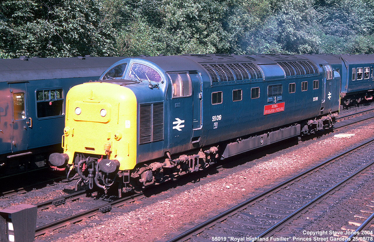 55019 "Royal Highland Fusilier" at Princes Street Gardens, Edinburgh on 26/08/78.